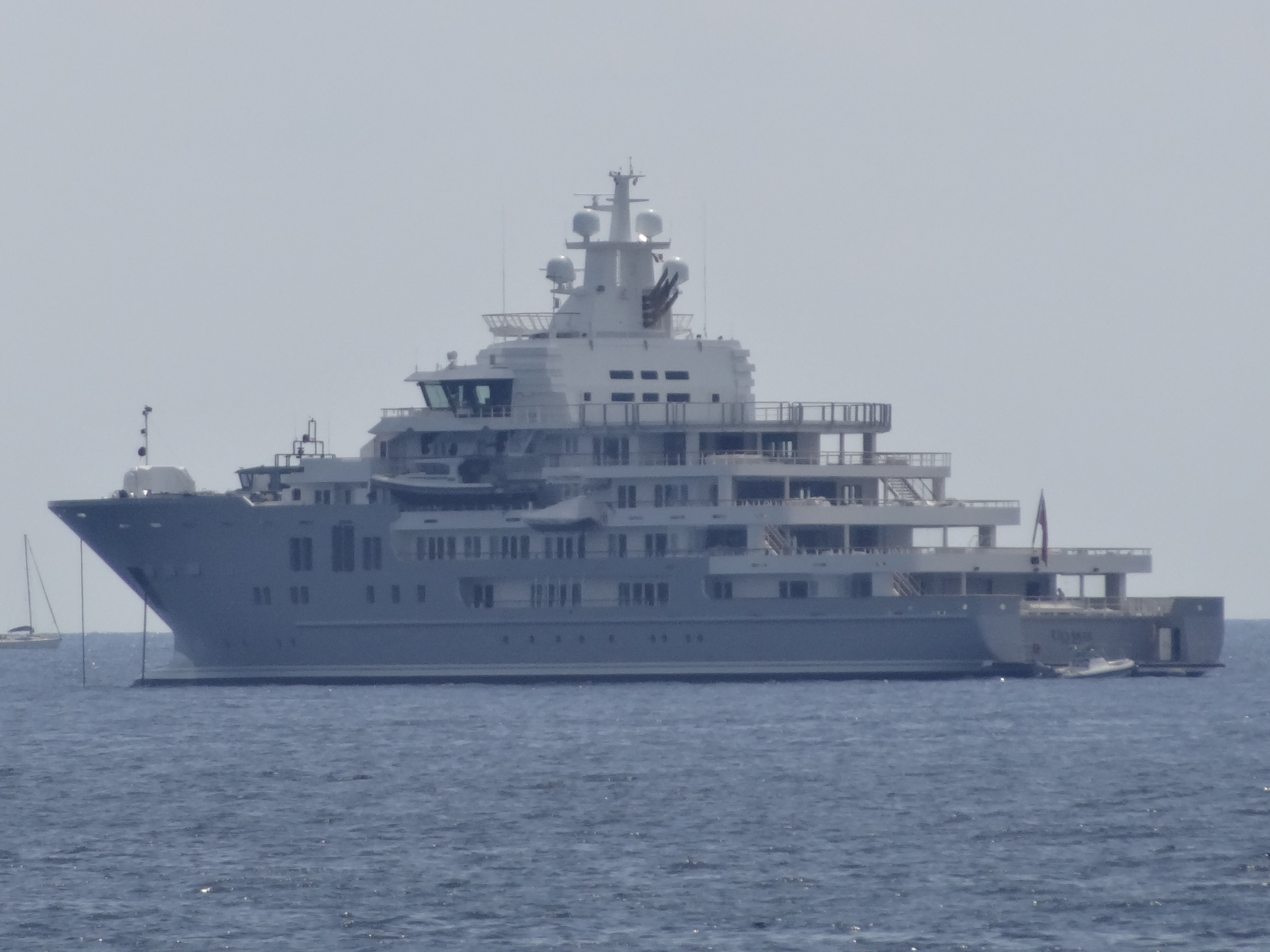 Yacht, near Antibes